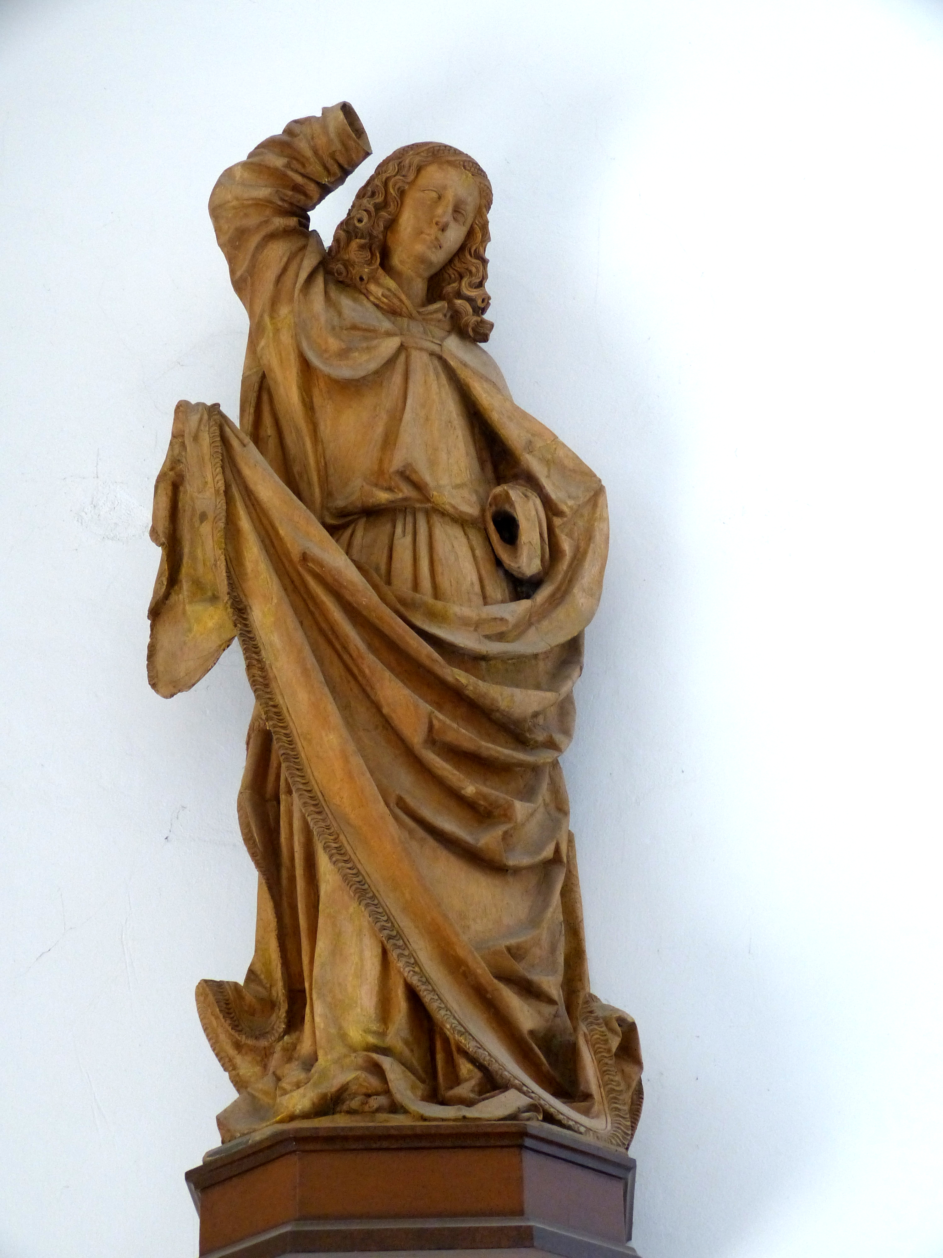 Landau an der Isar ( Lower Bavaria ). Mary Assumption parish church: Gothic statue of Saint Michael ( 15th century )